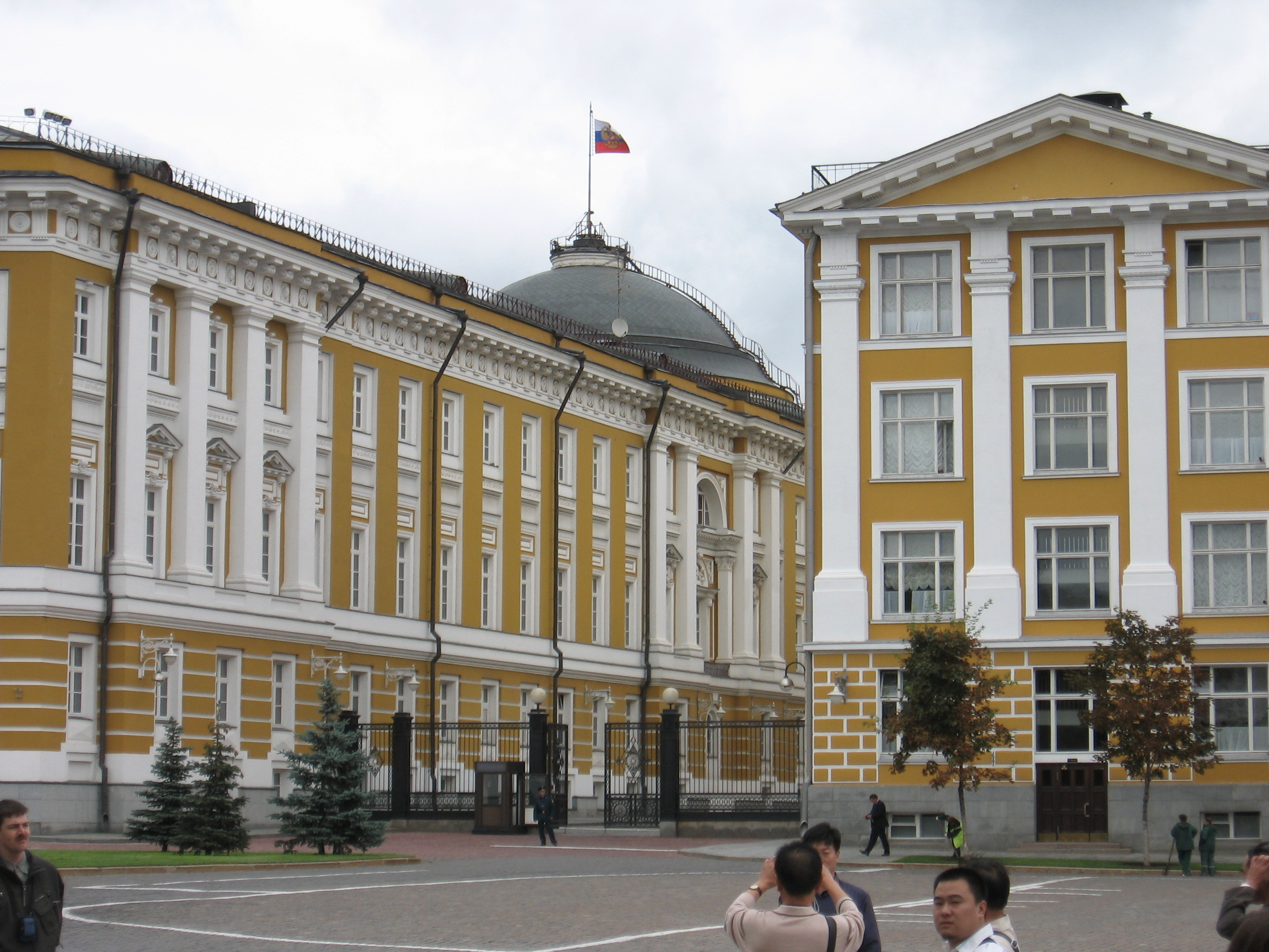 The government residence in the Kremlin.